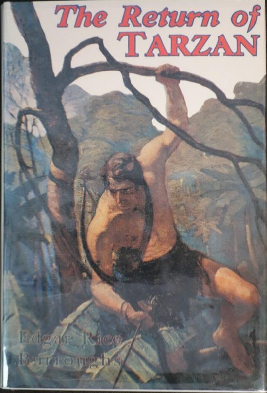 Cover art from The Return of Tarzan by Edgar Rice Burroughs, A. C. McClurg